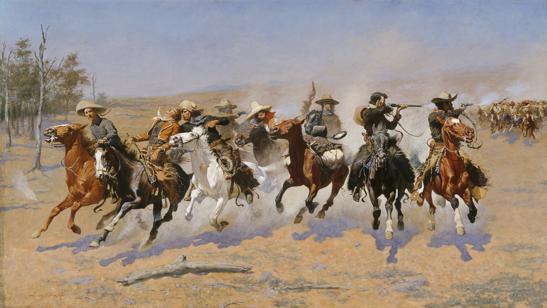 Frederic S. Remington (1861-1909); A Dash for the Timber; 1889; Oil on canvas; Amon Carter Museum of American Art, Fort Worth, Texas; 1961.381